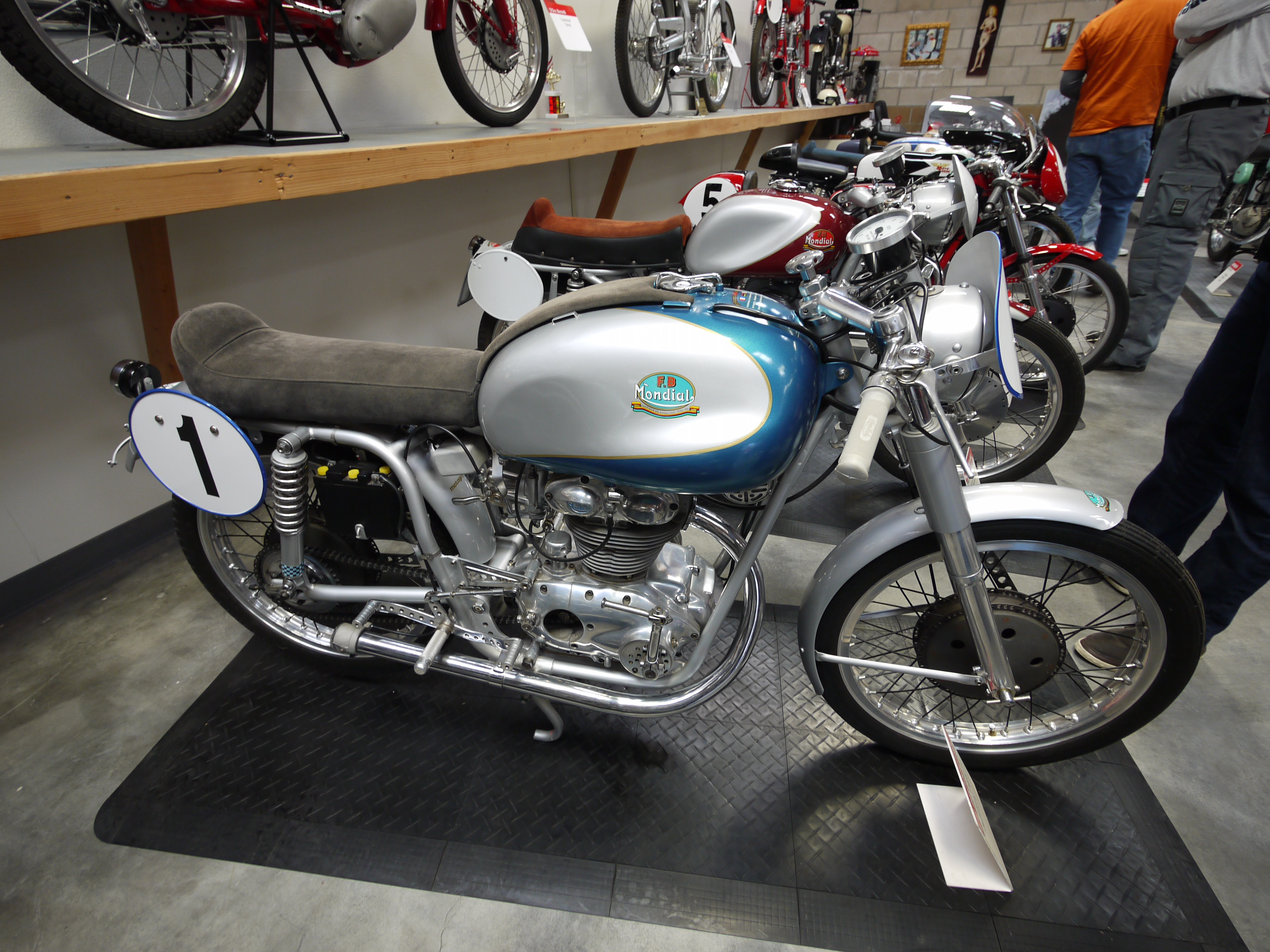 FB Mondial 250 Super Sport, 1956, MSDS